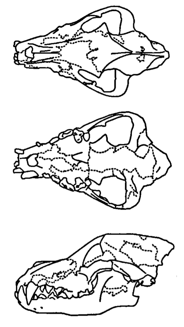 Skull of Xenocyon lycanoides